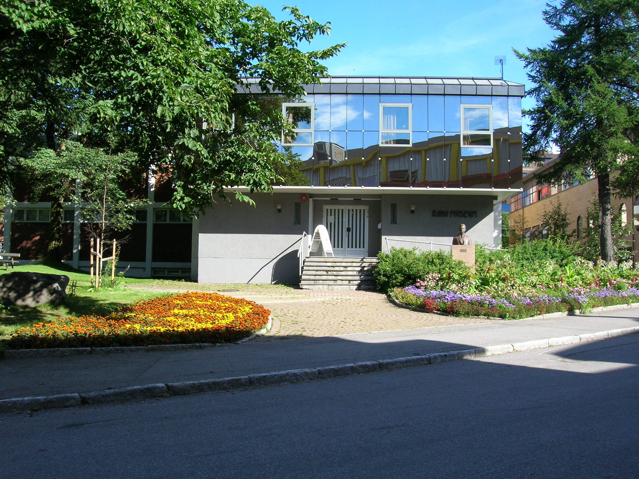 Mo i Rana. Museumsbygningen i sentrum (kulturhistorisk avdeling).Photo taken on August 24, 2005 with a NIKON Coolpix 5600 5,1 Megapixel camera.